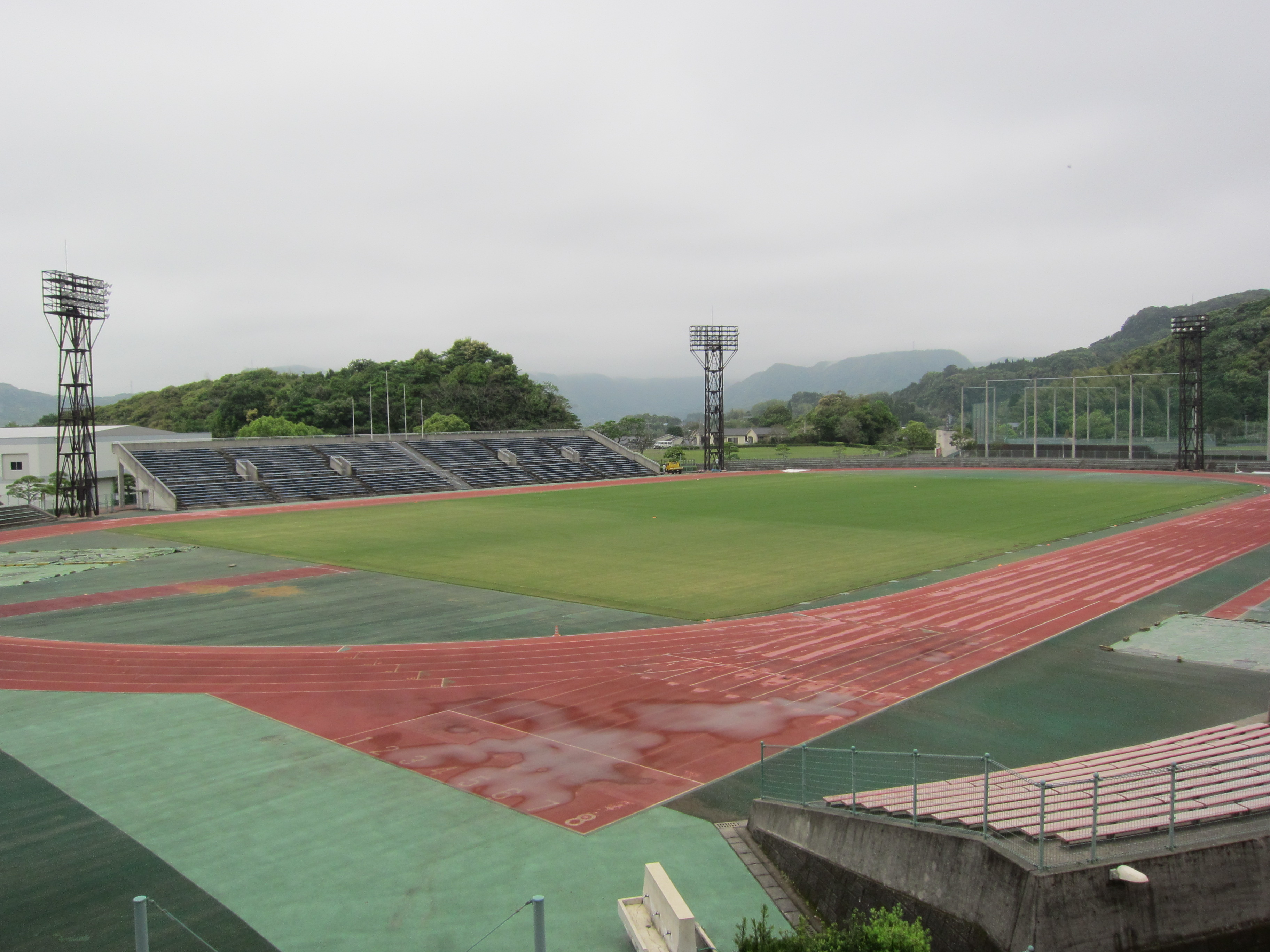 Kokubu Stadium